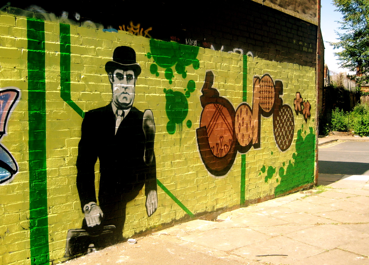 Graffiti in Clarendon Park, Leicester.